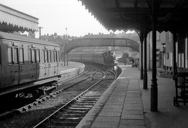 Cowes railway station, Isle of Wight near England. Now long gone, this was how the station looked in 1963, with a train from Newport approaching.